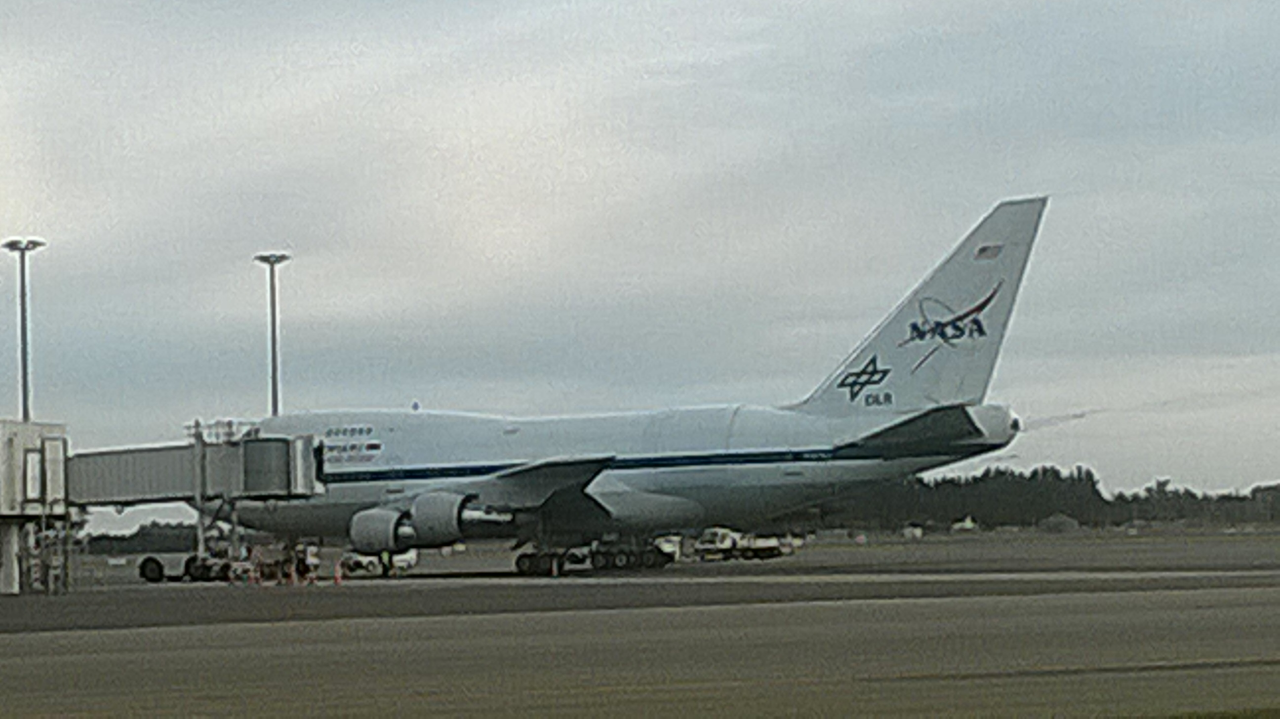 NASA 747-SP "SOFIA" at the gate in Christchurch, 2015